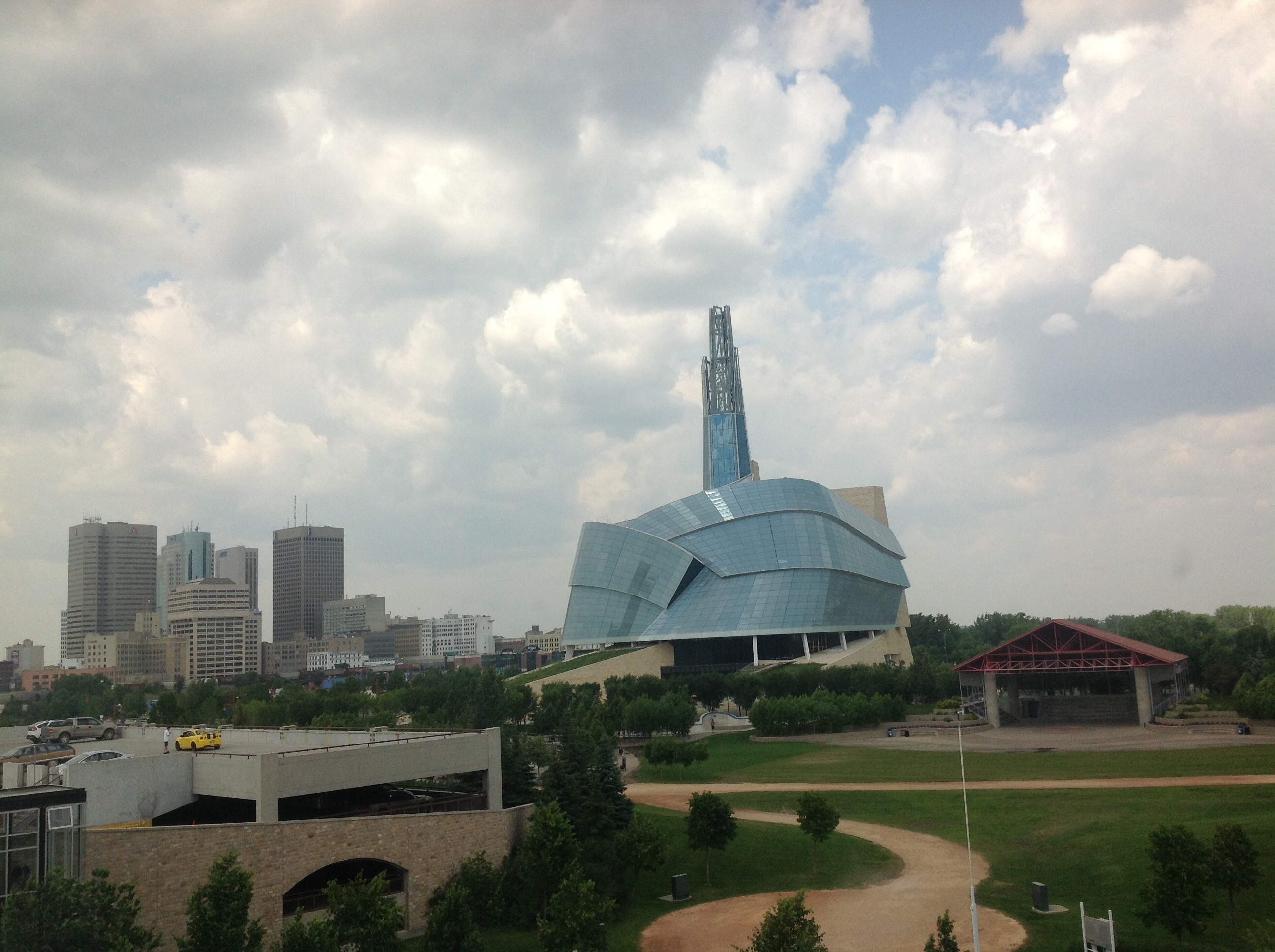 Canadian Museum for Human Rights